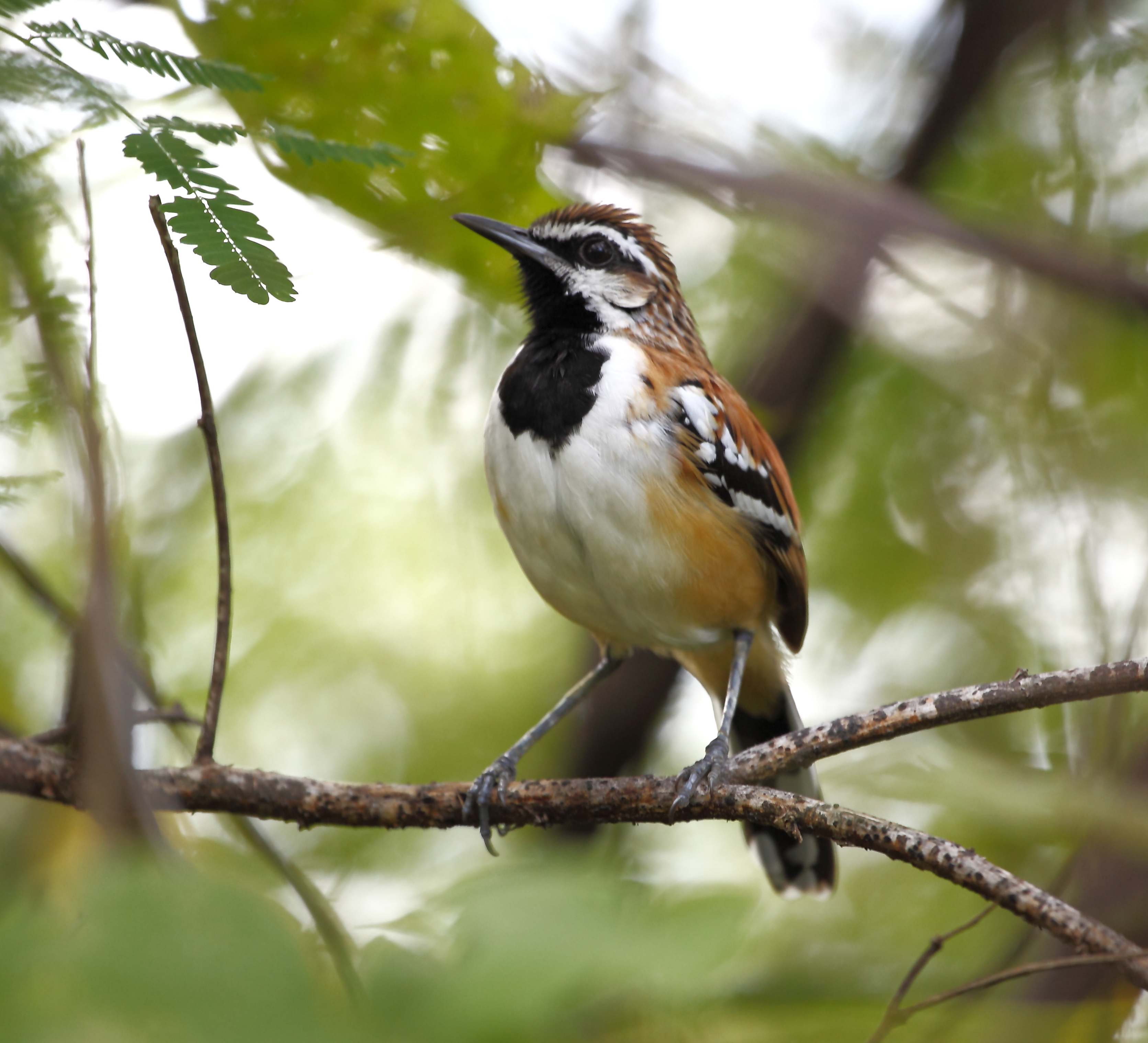 Stripe-backed antbird at Potengi - CE - Brazil